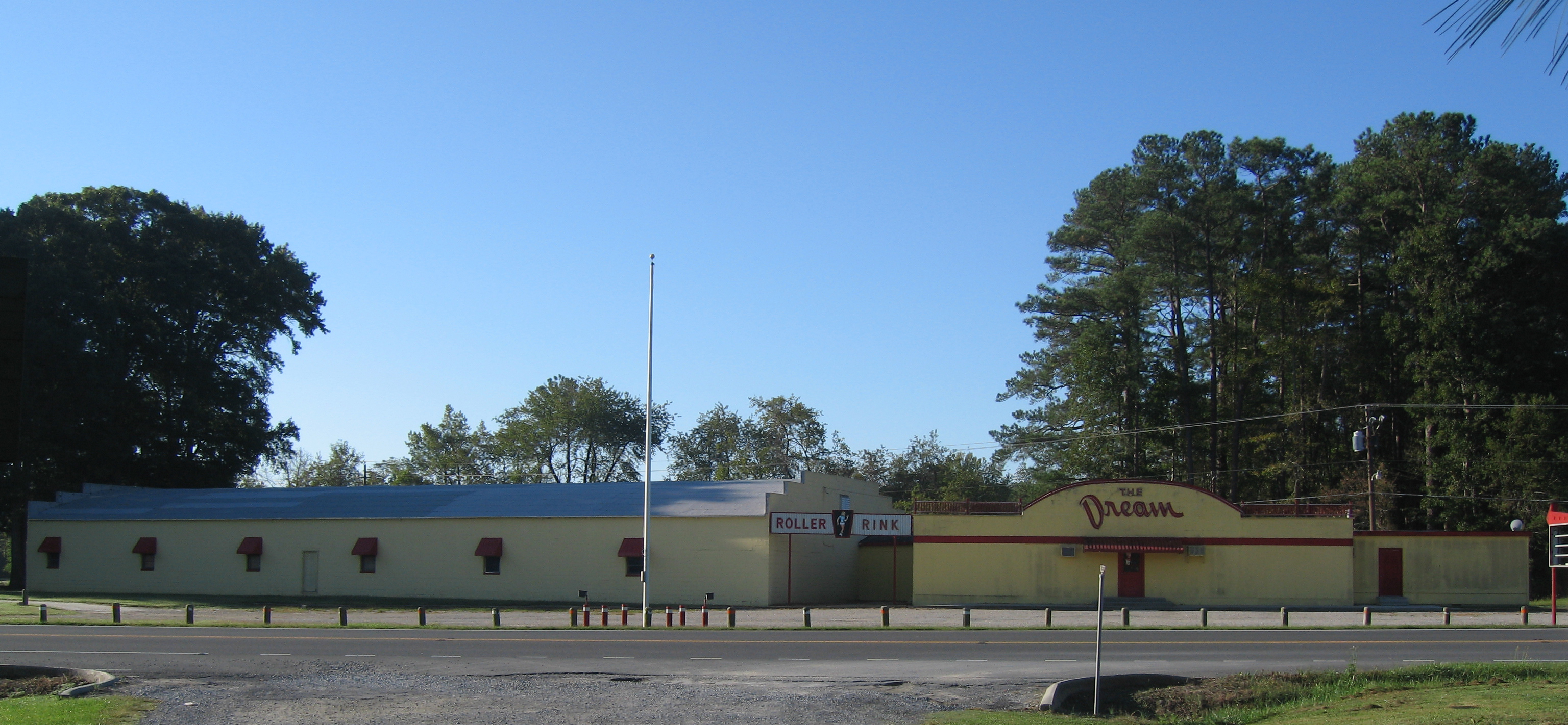 Front view of the Dream Roller Rink, 32438 Chincoteague Road, New Church, Virginia.